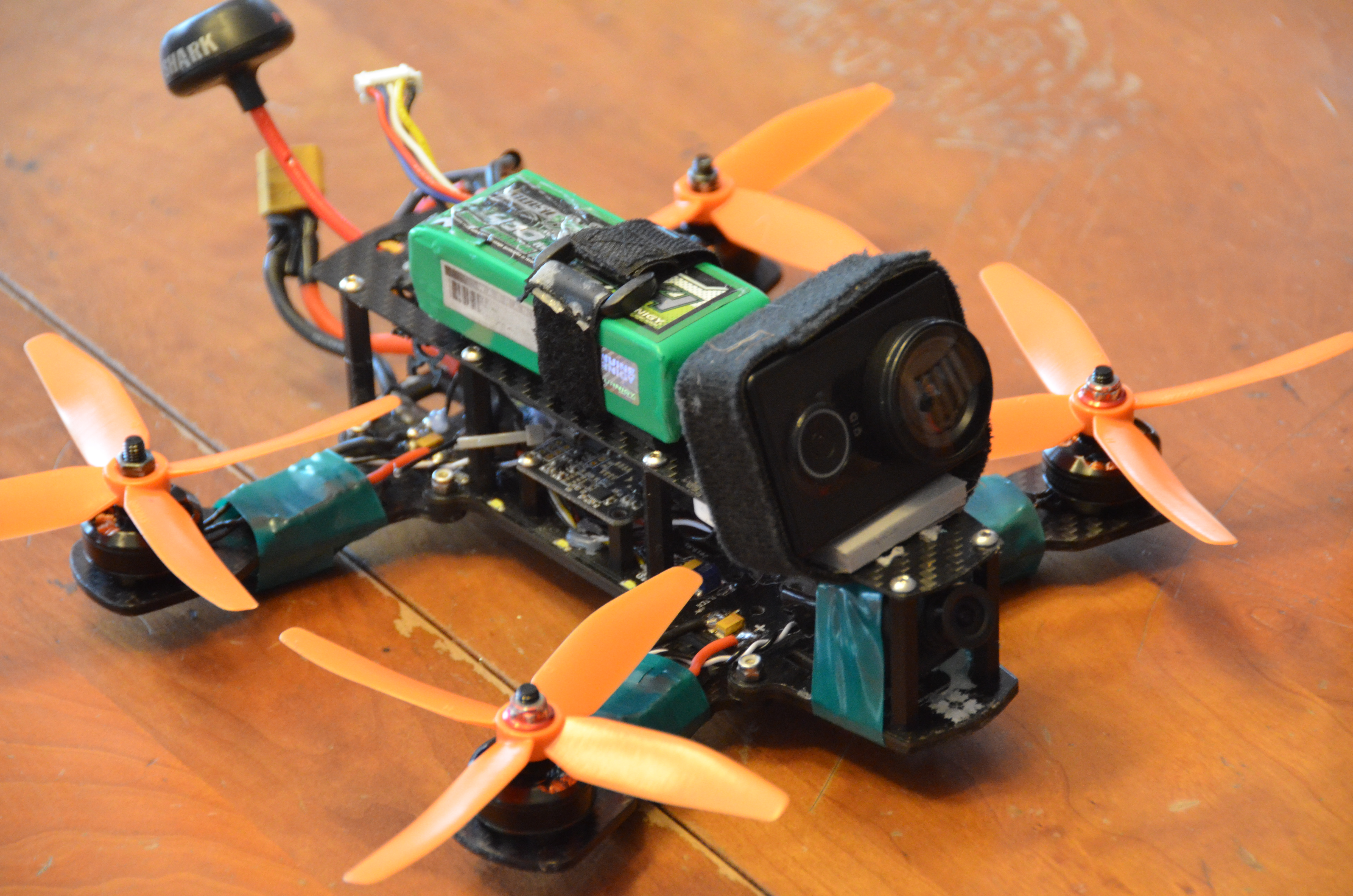 Minion 220 racing multirotor by RotorGeeks